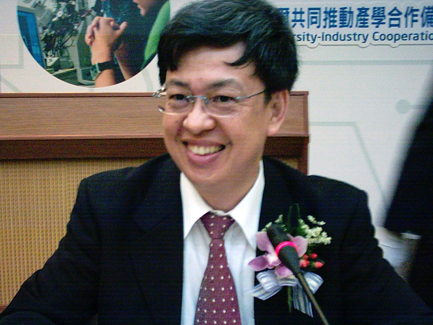 Prof. Dr. Chen Chien-Jen Minister, National Science Council, Executive Yuan.